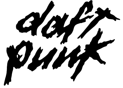 Daft Punk Logo Random Access Memories 2013